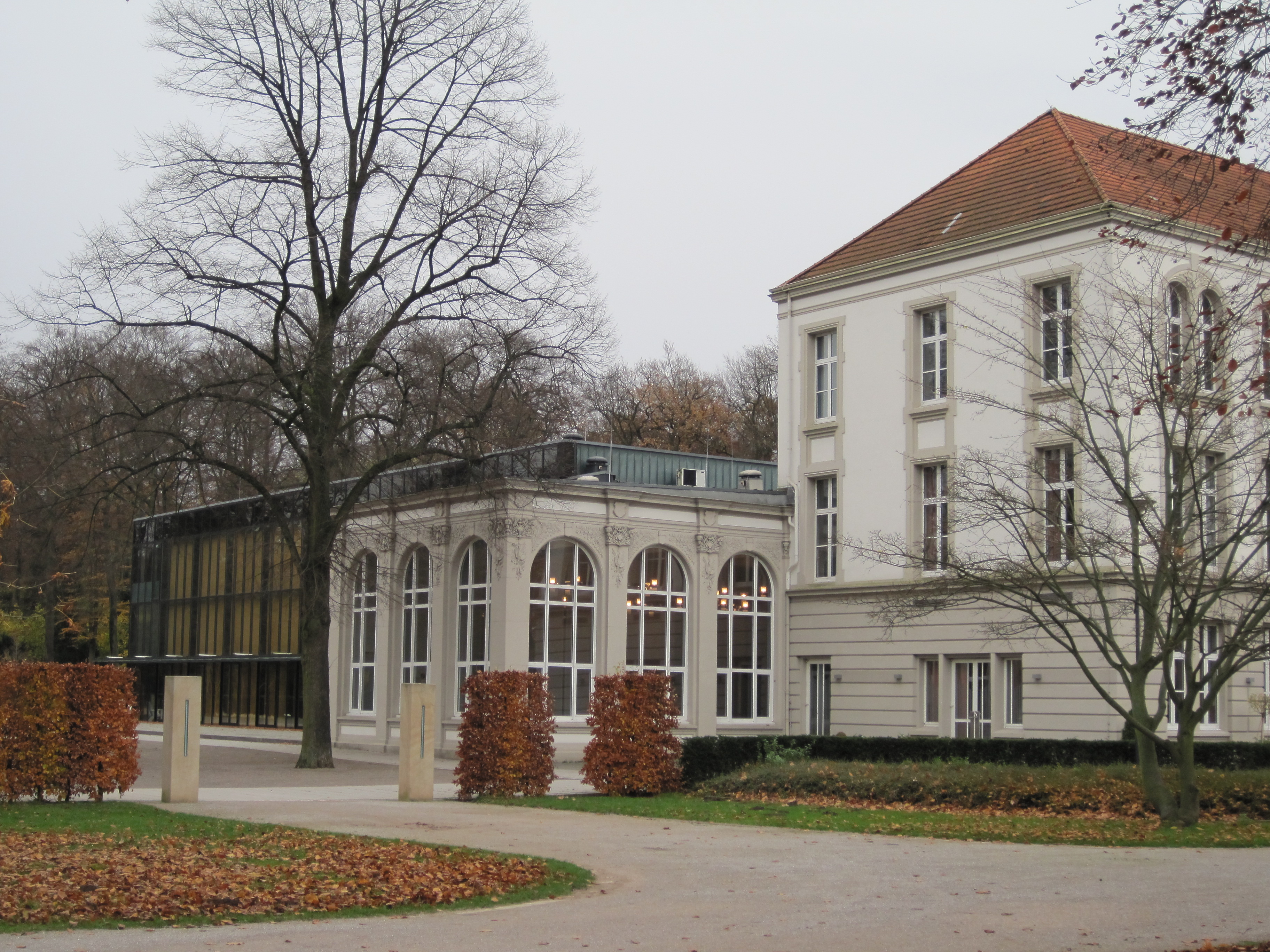 Spa Hamm, Kurhaus with the new Kurhaus hall from the Parkside of the Bulding.